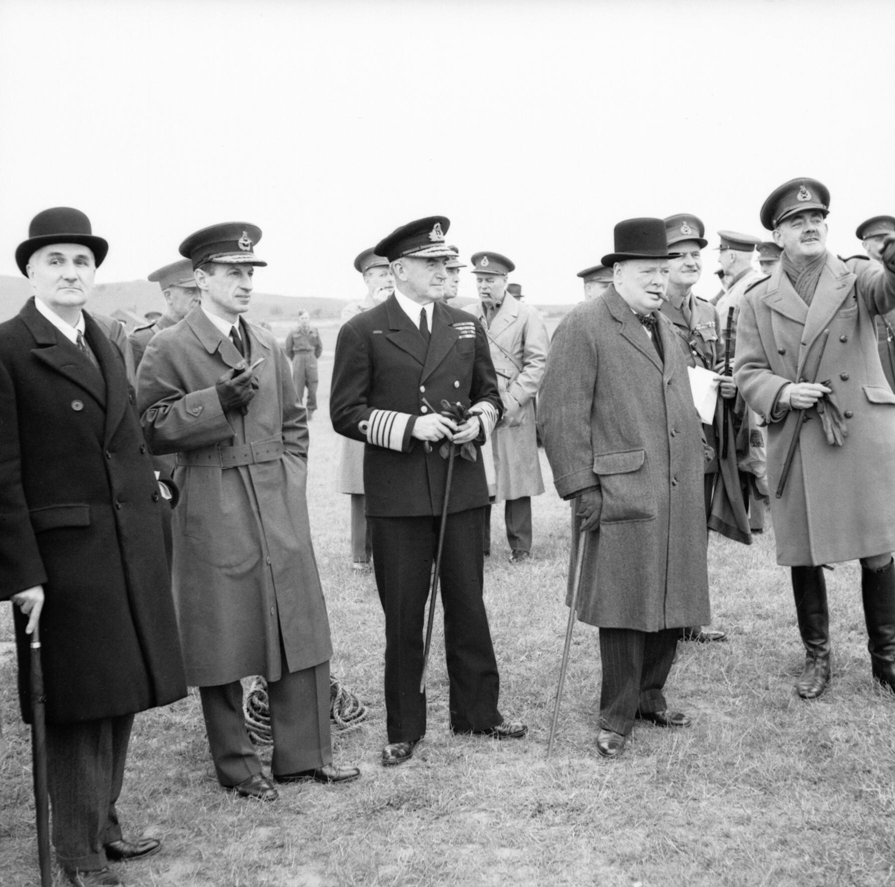 Winston Churchill with his scientific advisor Lord Cherwell (extreme left), Air Chief Marshal Sir Charles Portal and Admiral of the Fleet Sir Dudley Pound, watching a display of anti-aircraft gunnery, June 1941. Events and Personalities: Protagonists in the debate on the value of the strategic bombing offensive against Germany: left to right, Lord Cherwell, Air Chief Marshal Sir Charles Portal, Admiral of the Fleet Sir Dudley Pound and Prime Minister Winston Churchill. They are photographed watching a display of anti-aircraft gunnery.